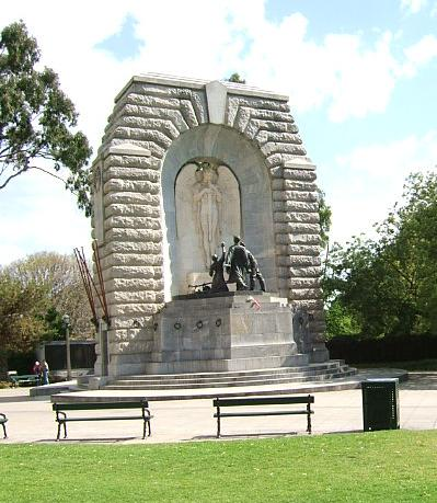 War memorial Kintore Av, Adelaide, South Australia